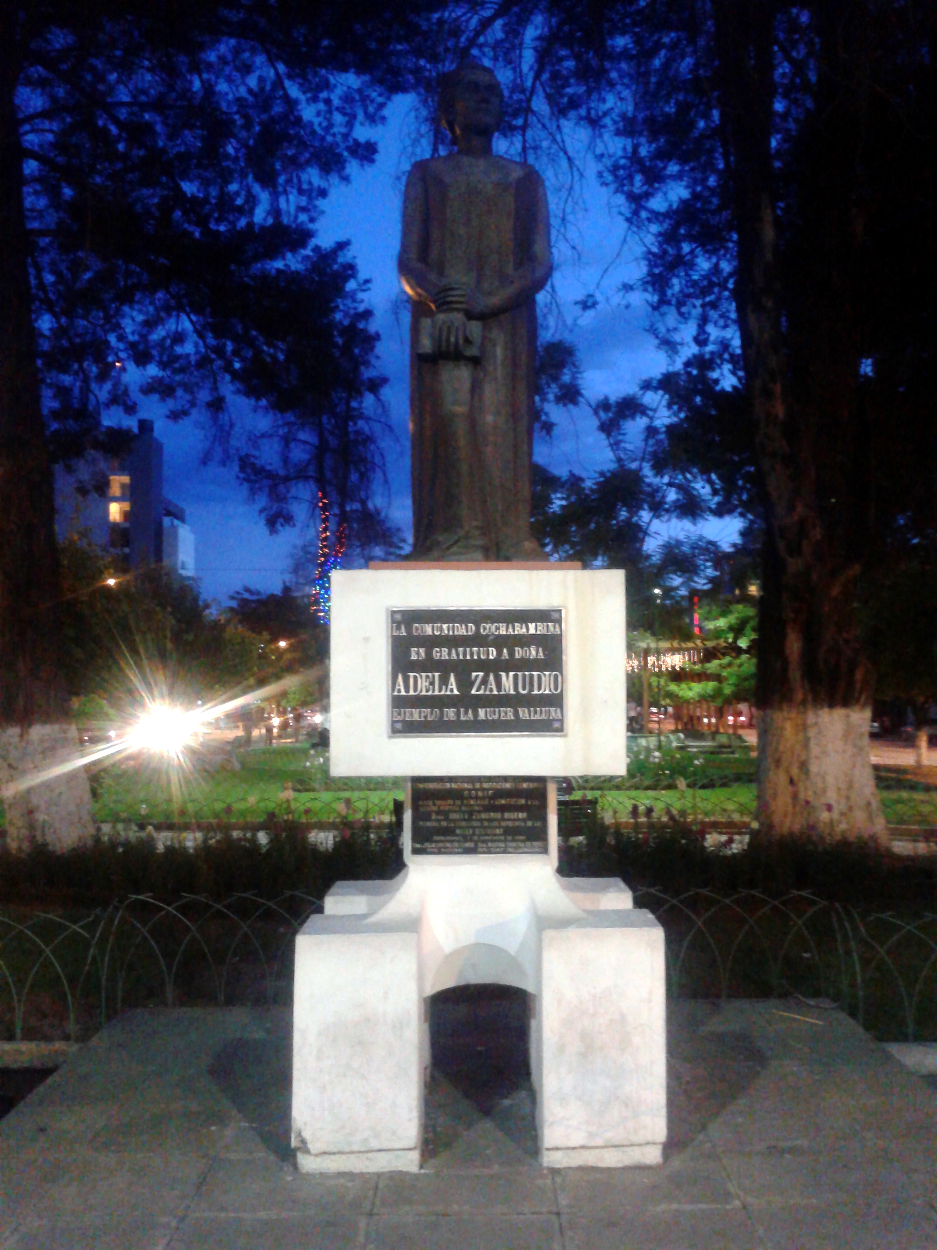 Monument to Mrs. Adela Zamudio located north of El Prado, Ballivián Avenue in Cochabamba